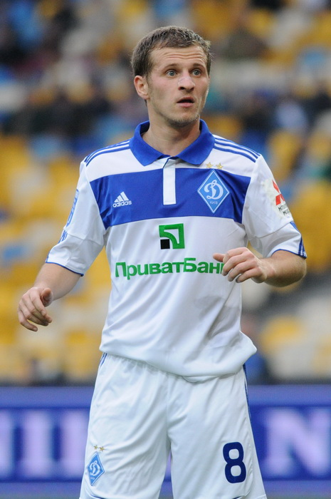 Ukrainian footballer of Dynamo Kyiv Oleksandr Aliyev during match against Vorskla Poltava.